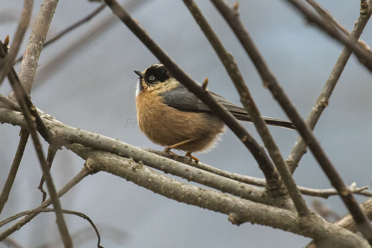 Rufous-fronted Tit - Arunachal Pradesh - India_FJ0A8410